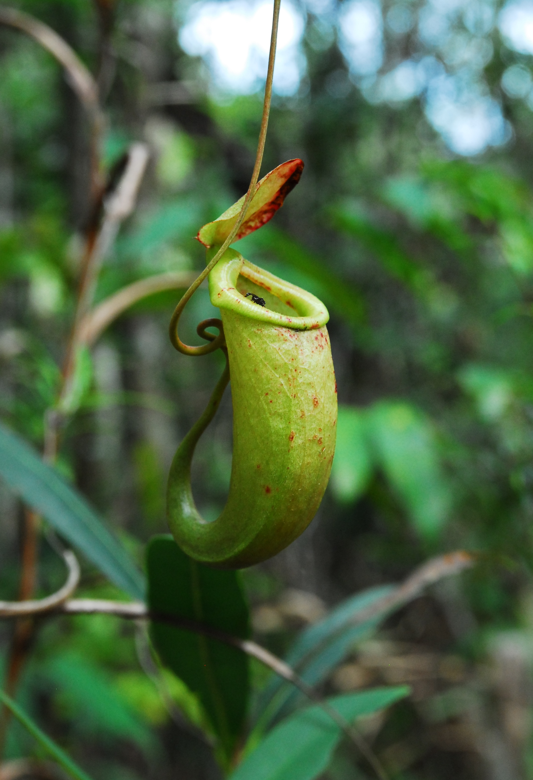 Nepenthes bellii upper pitcher, Dinagat Island, Mindanao, Philippines